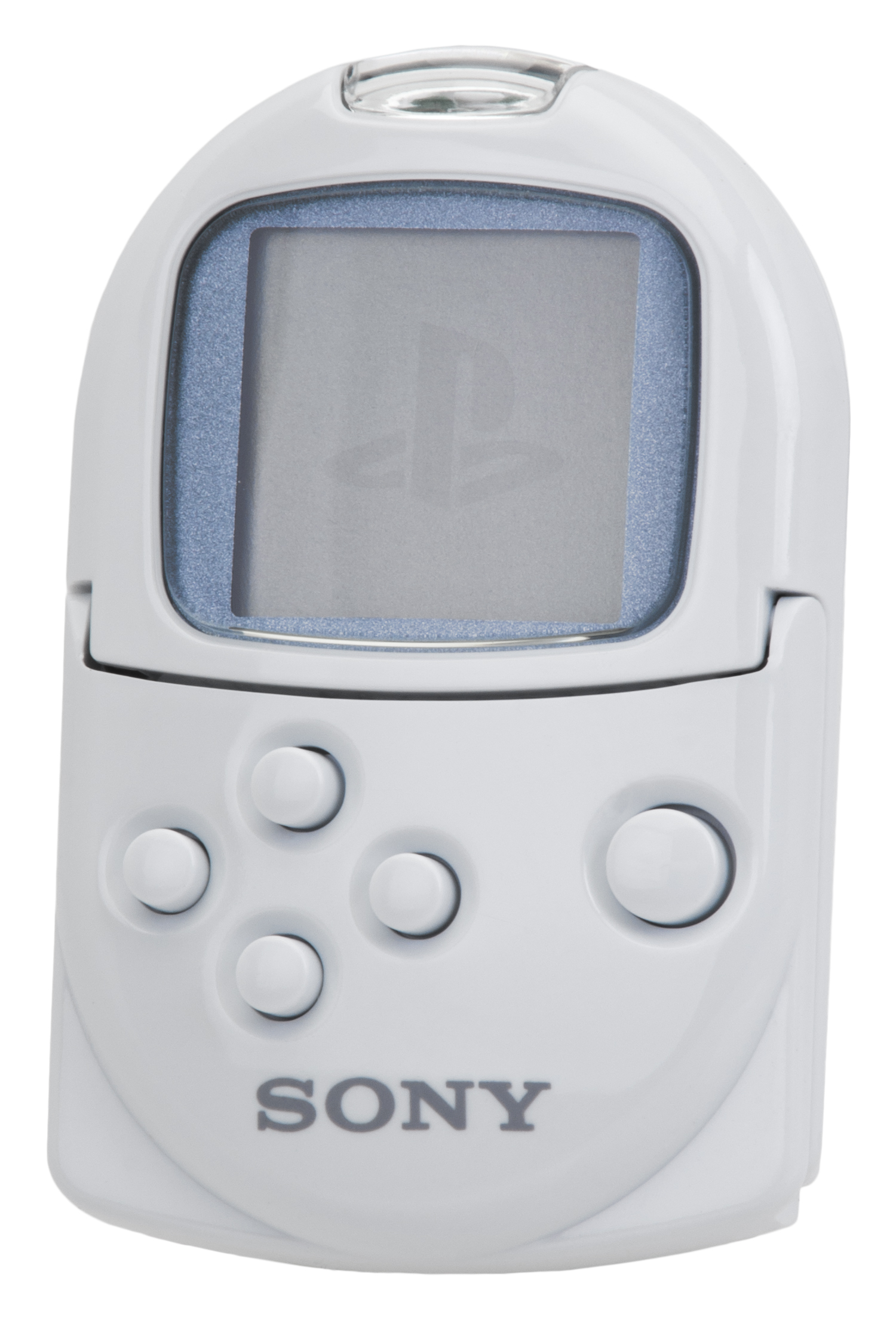 The PocketStation, a Sony PlayStation memory card and sorta PDA that was only released in Japan.